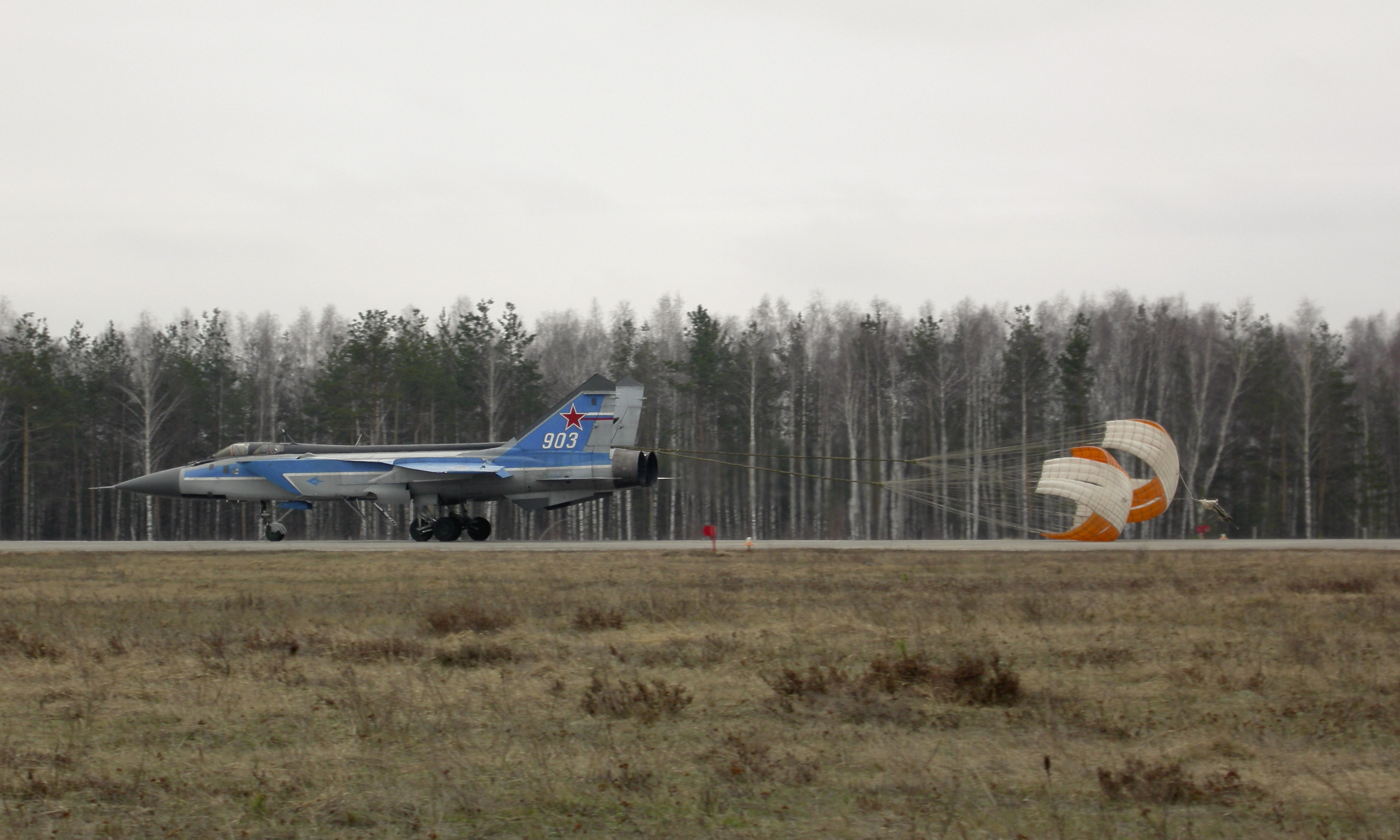 Russian MiG-31E landing at Sormovo Airfield (Russian: аэродром Нижний Новгород (Сормово)).